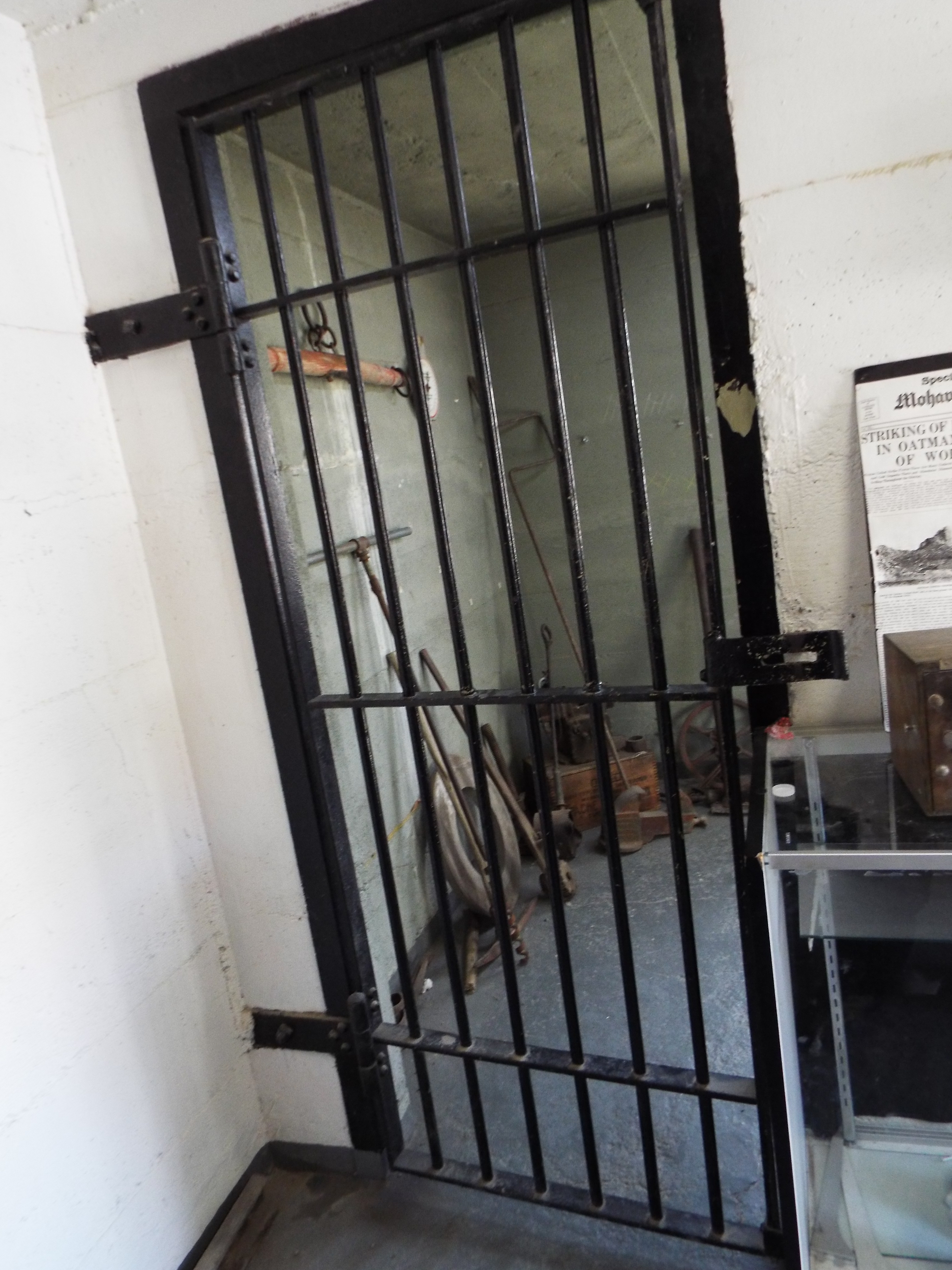 Jail cell of the Oatman Jail established in 1936